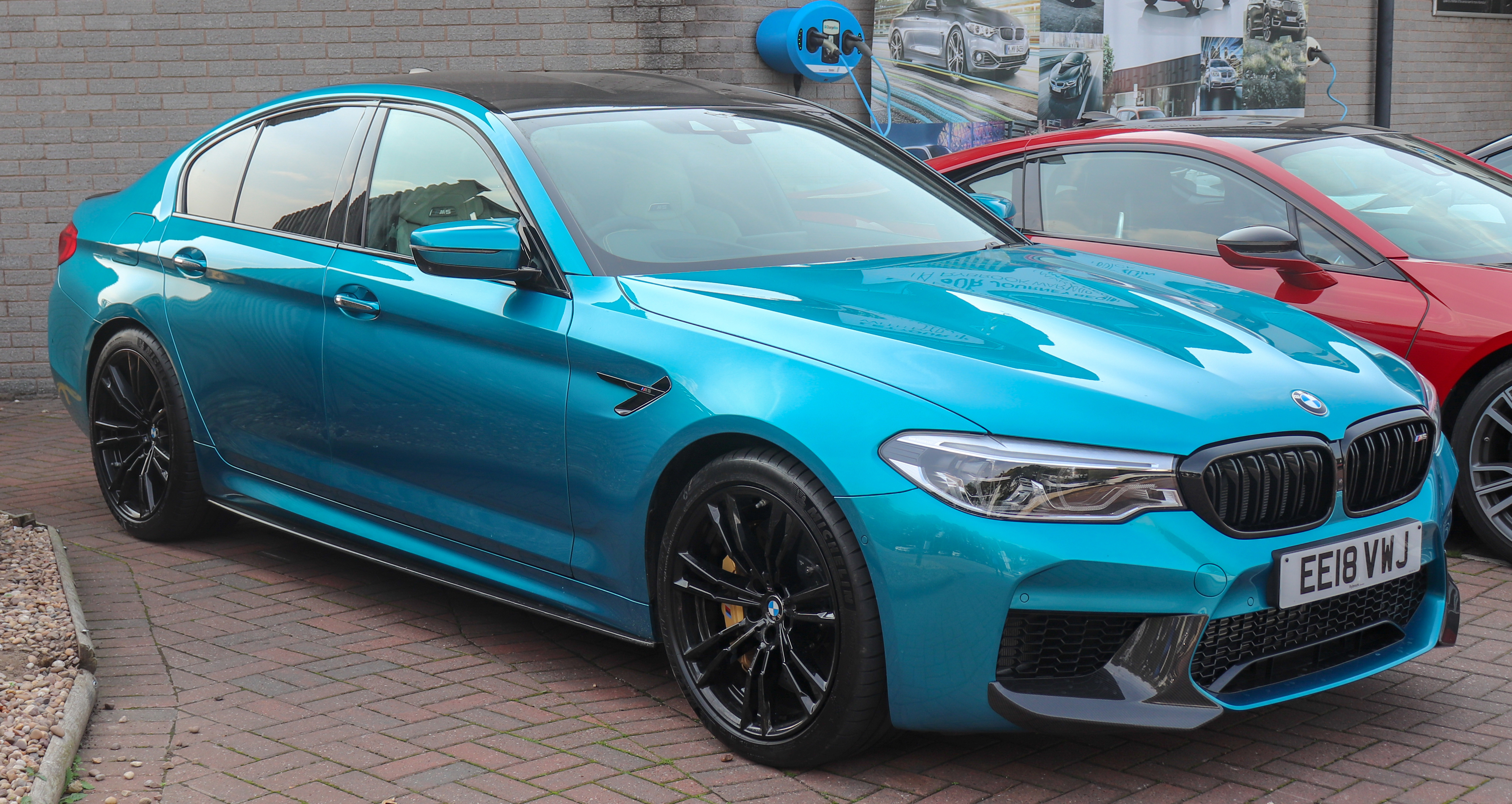 2018 BMW M5 Automatic 4.4 Taken in Leamington Spa